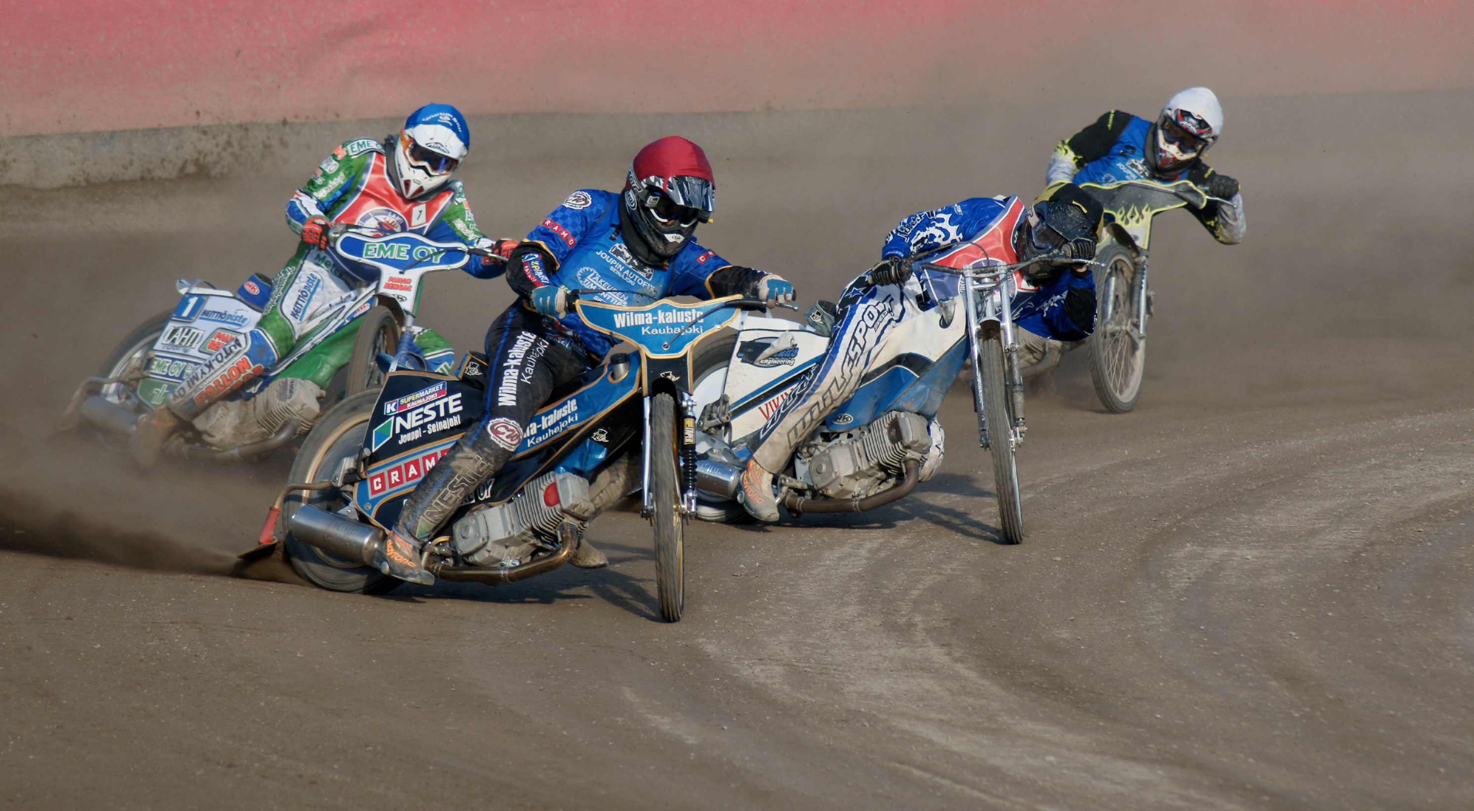 Speedwayriders riding in start number 17 in Speedway Extraliiga -competition in Yyteri speedway venue.